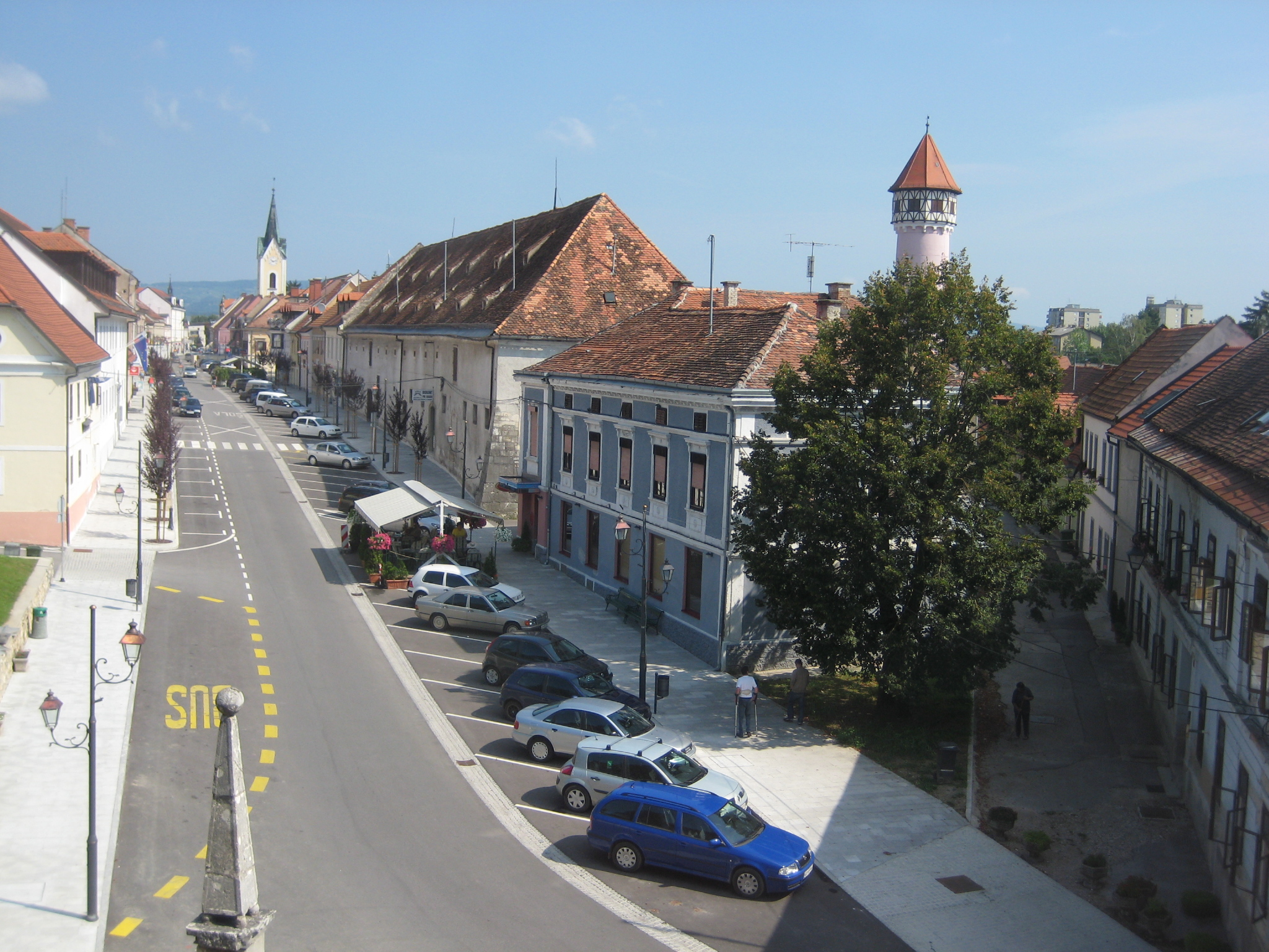 Brežice, town in Slovenia